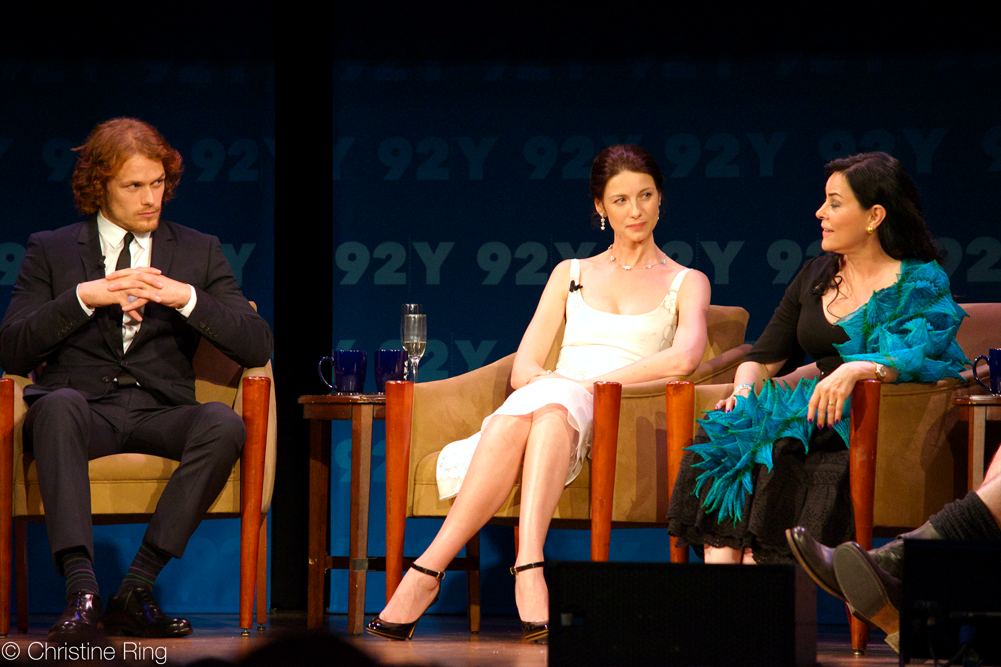 Actors Sam Heughan (left) and Caitriona Balfe (center) with author Diana Gabaldon (right) at 92nd Street Y for the New York premiere of the first season of the TV series Outlander. The season is based on Gabaldon's novel of the same title and shows Heughan and Balfe starring.